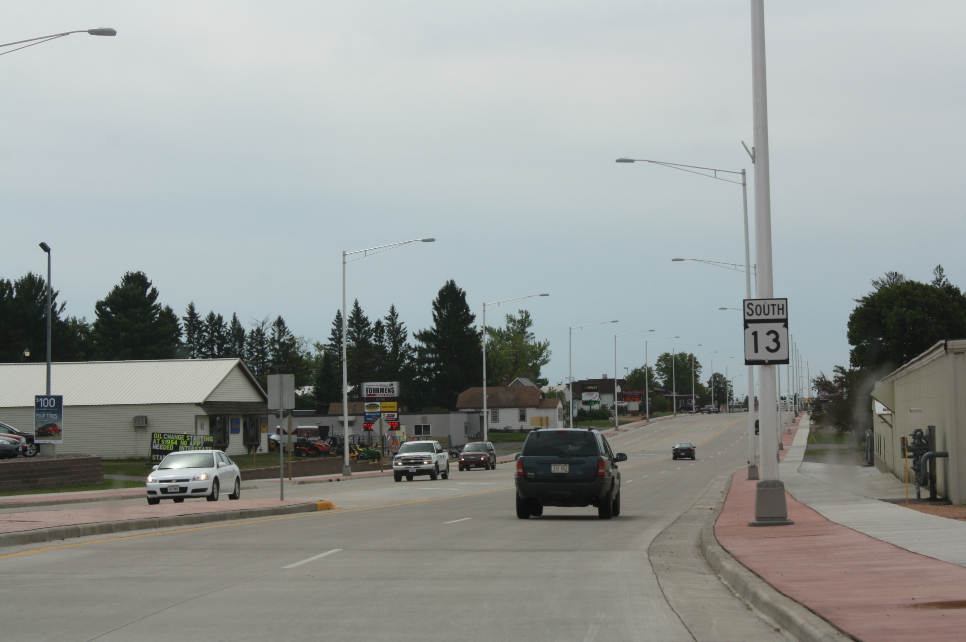 Medford, Wisconsin on Wisconsin Highway 13.